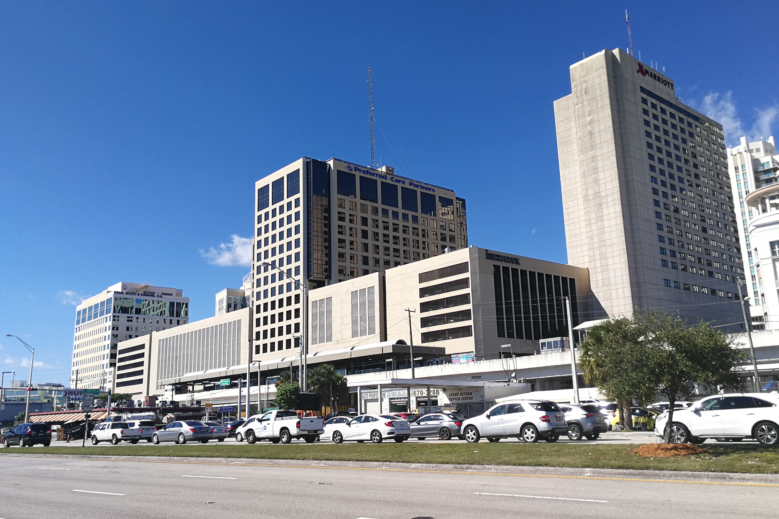 View of Dadeland South Station from US1